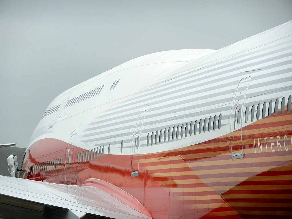 Boeing 747-8 Intercontinental in 2011